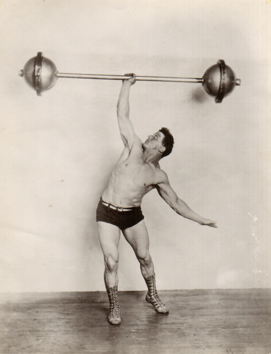 Heinrich "Milo" Steinborn lifting weights around 1920